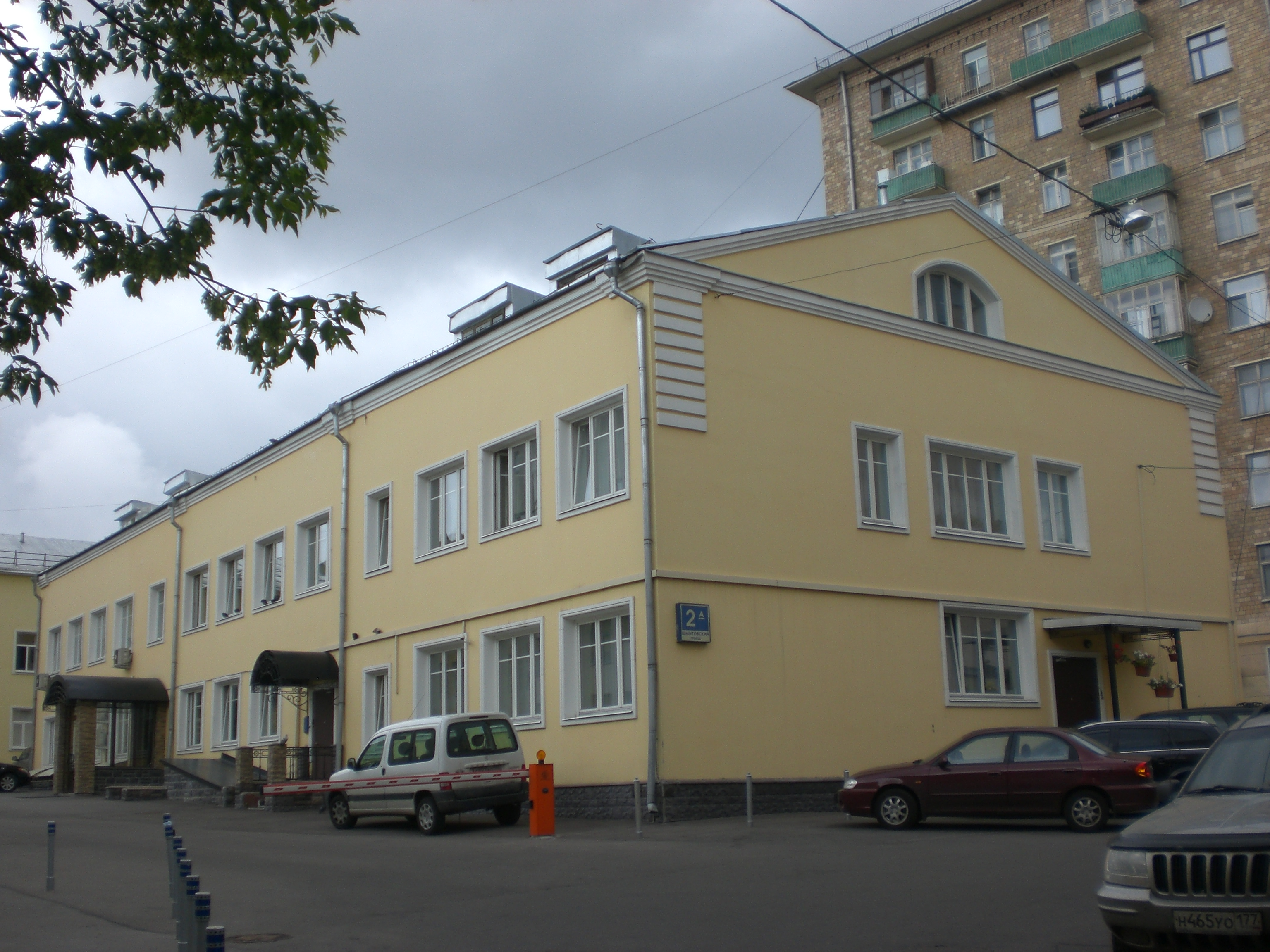 Moscow. General Custody of San Francesco d'Assisi and San Francesco Monastery